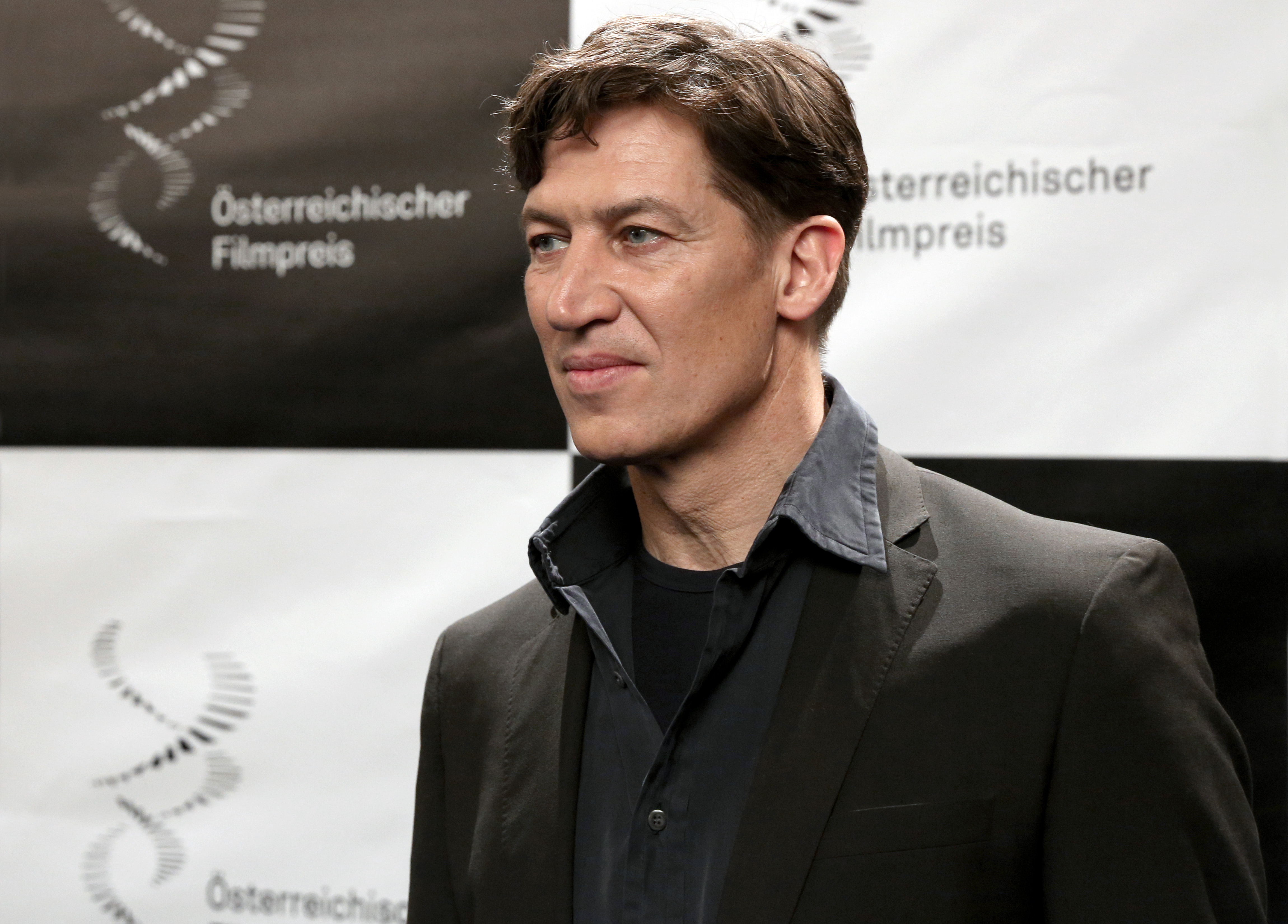 Tobias Moretti at the Austrian Film Awards 2015 at Rathaus, Vienna,Austria.